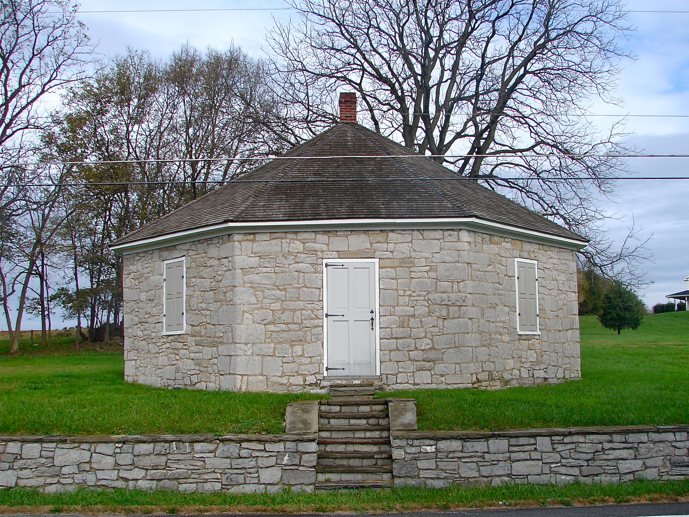 Sodom Schoolhouse, from the south, on the NRHP since February 12, 1974 East of Lewisburg and Montandon on Pennsylvania Route 45, in West Chillisquaque Township, Northumberland County, Pennsylvania